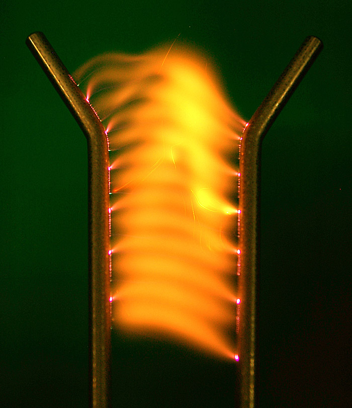 A photograph depicting high voltage arc travelling between two metal wires in the exhibition of interactive science in the Museum of Energy and Technology in Vilnius.